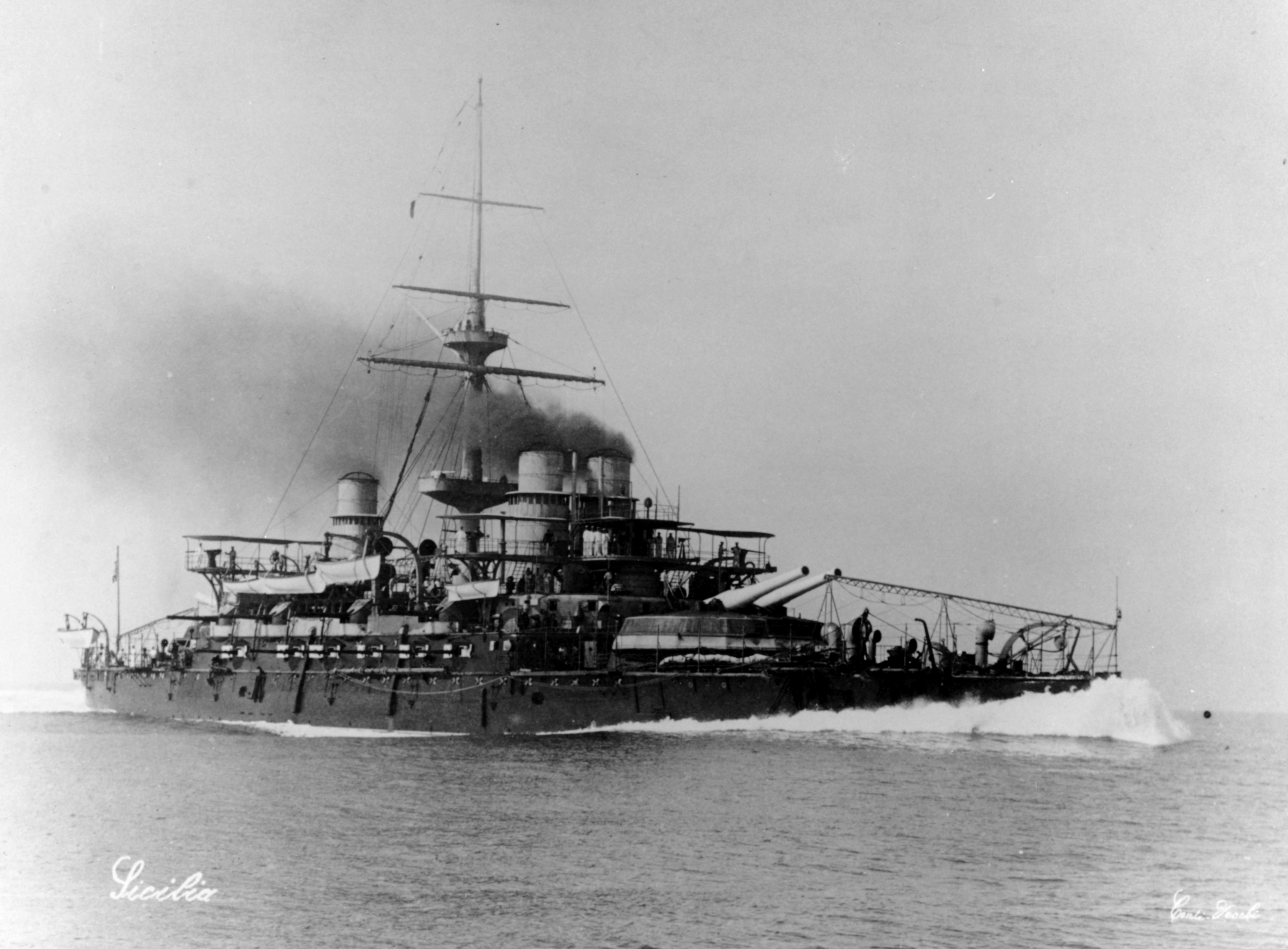 Title: SICILIA (Italian Battleship, 1891-1923) Caption: Probably photographed on trials at about the time she was completed, May 1896. The photograph was taken by Conti-Vecchi, a firm known to have been active around La Spezia in the 1890s. The U.S. Navy's Office of Naval Intelligence obtained a copy of this photograph soon after it was made.)